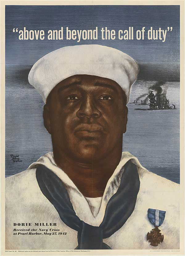 Above and beyond posterTitle: Above and beyond the call of duty--Dorie Miller received the Navy Cross at Pearl Harbor, May 27, 1942 / David Stone Martin.